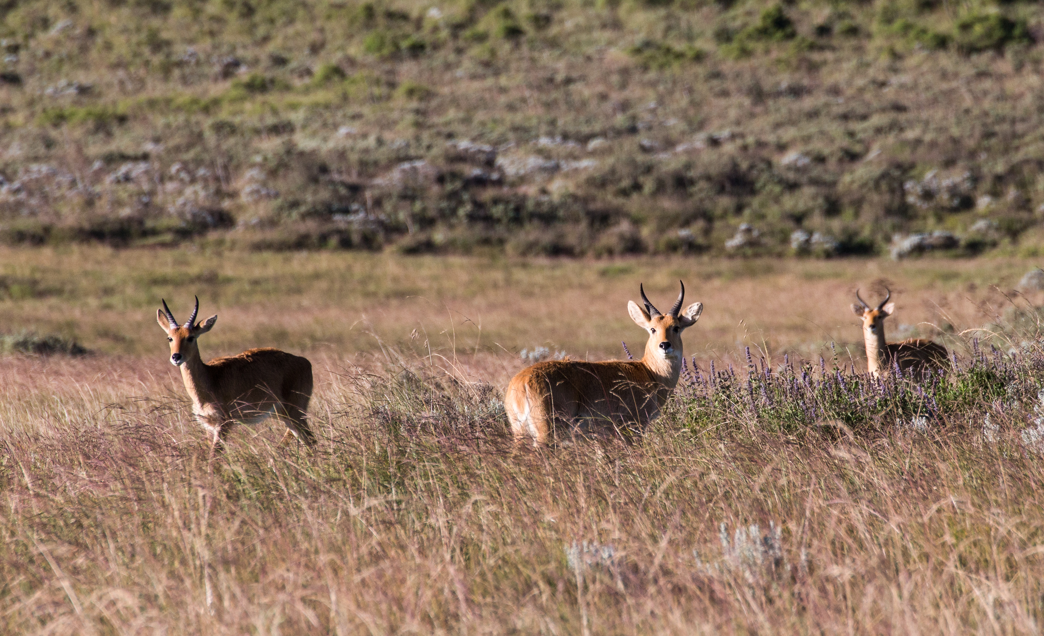 Bohor reedbuck